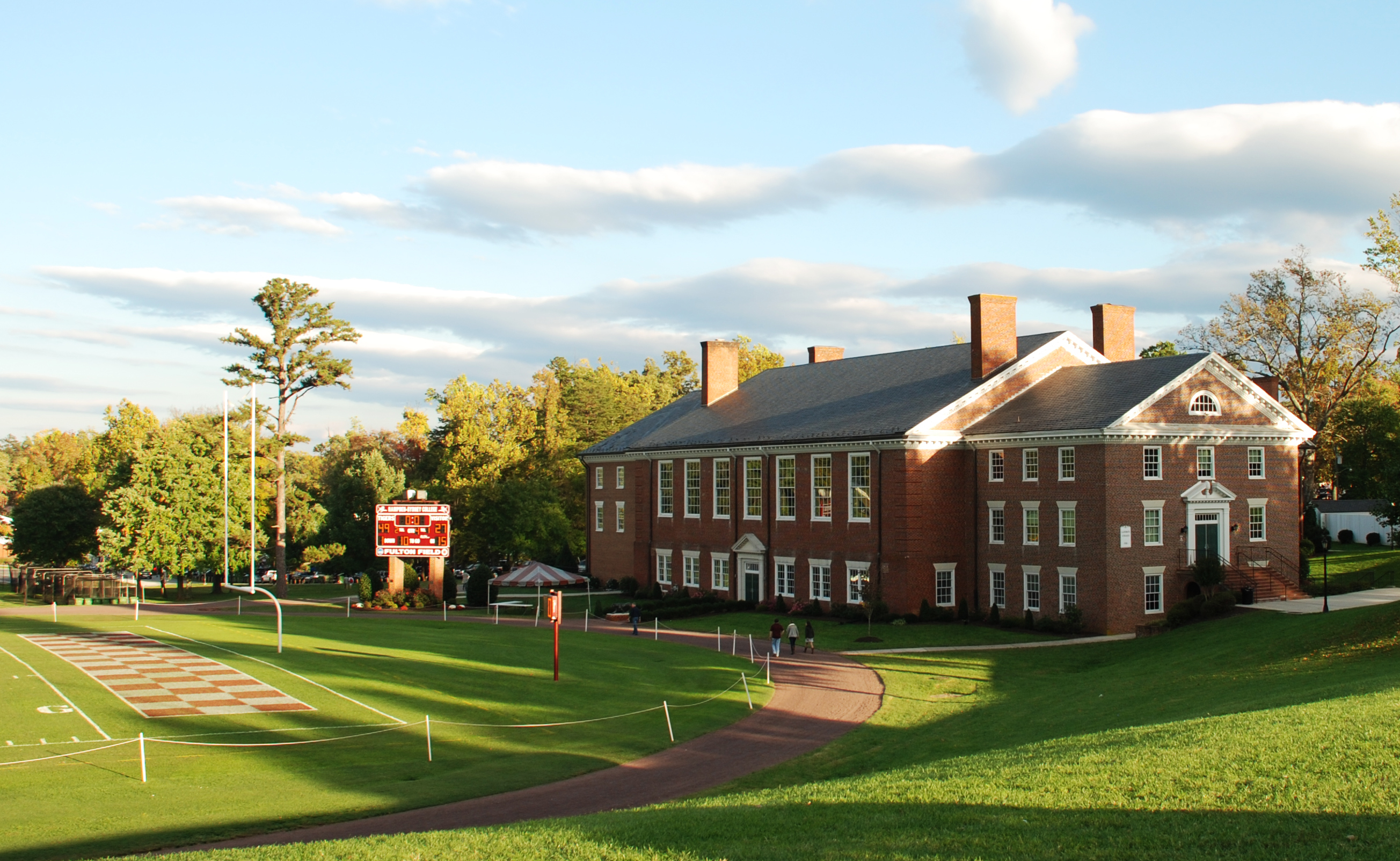 Kirk Athletic Center (formerly Gammon Gymnasium) at Hampden–Sydney College.